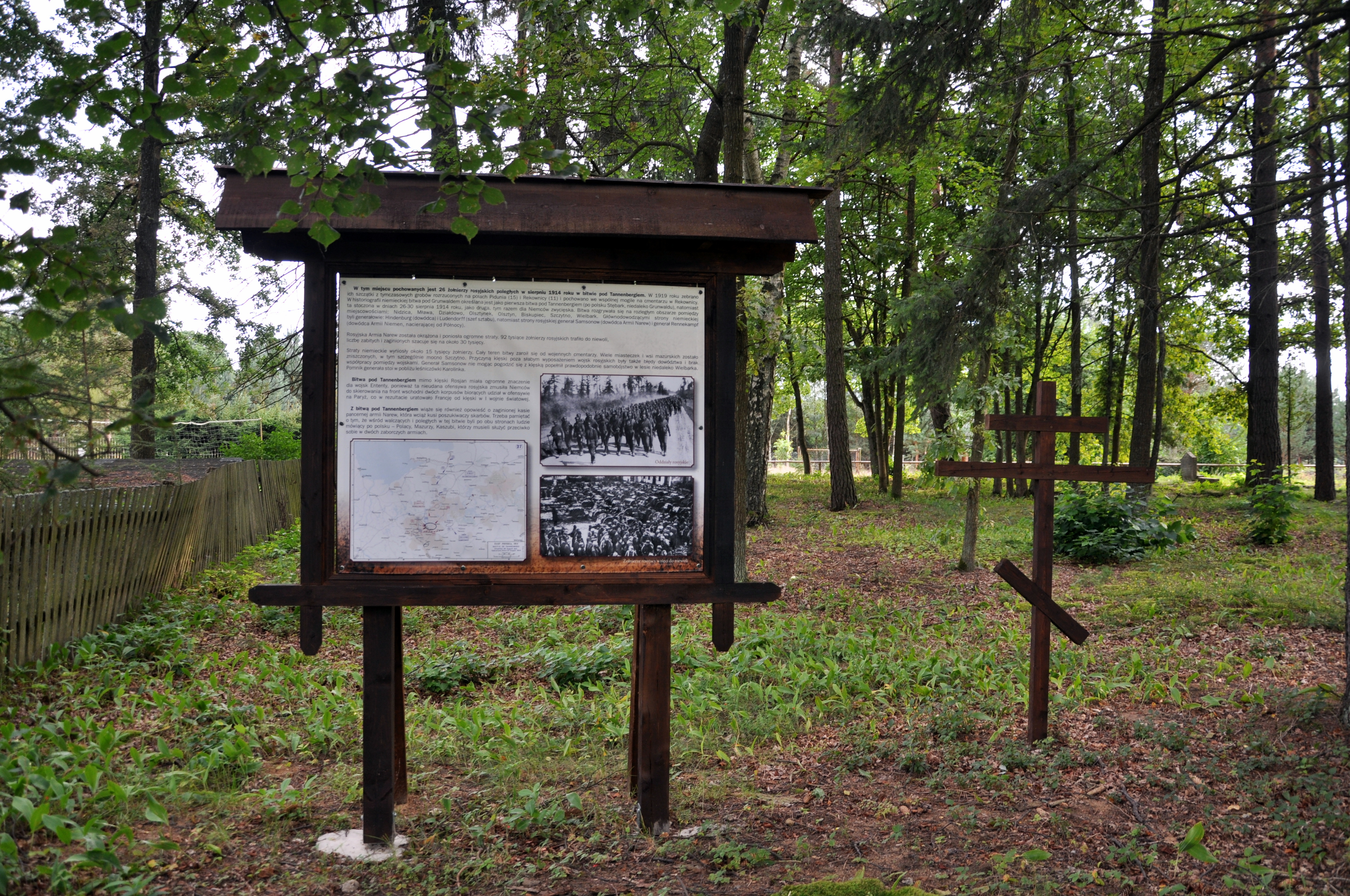 Old cemetery of Rekownica, with a war grave of 26 soldiers of the Russian Empire who perished in the Battle of Tanenberg